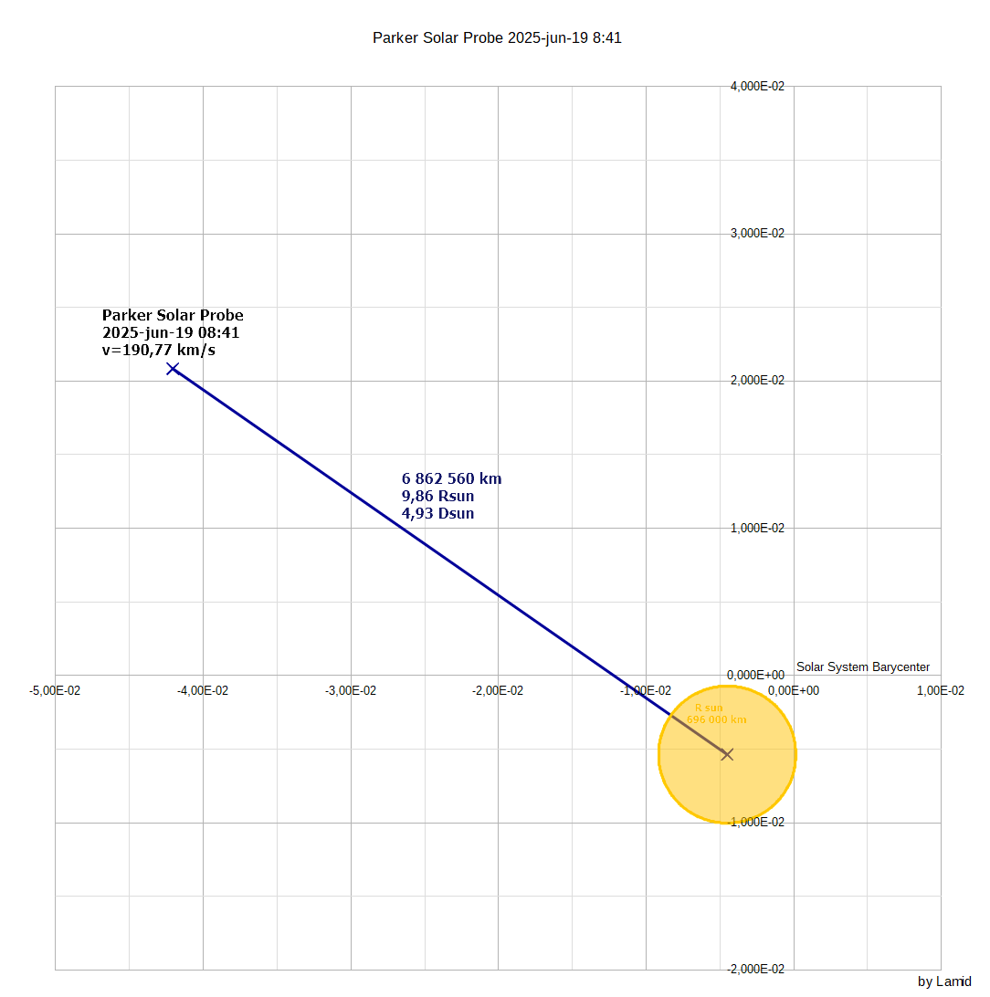 Parker Solar Probe 24th Perihelion 2025-jun-19 distance 9,86 Rsun